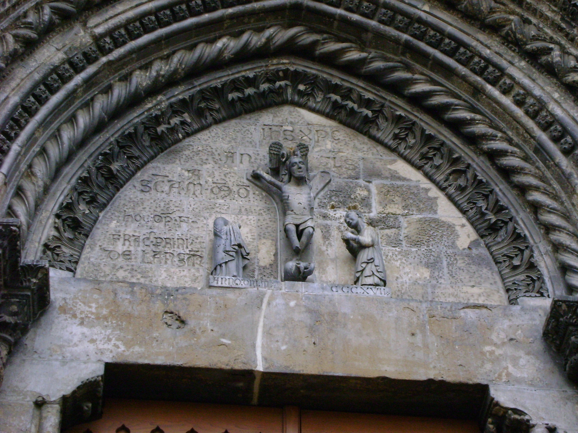 The lunette of the Gothic portal of the church of Santa Maria Maggiore, in Lanciano, in the province of Chieti, Abruzzo